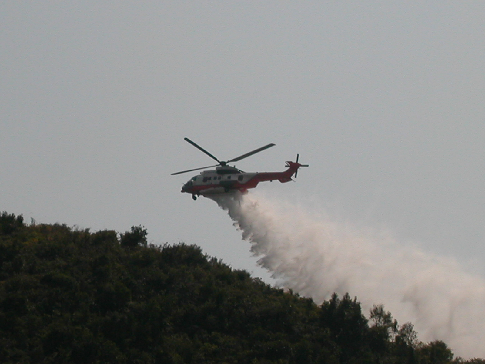 A Hong Kong Government Flying Service Eurocopter Super Puma AS332 L2 putting off a hill fire with belly mounted fire tank